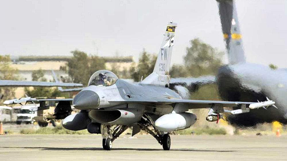 USAF F-16C block 25 #84-1310 from the 163rd EFS assigned to 332nd EFS, Balad AB, Iraq, taxis into position prior to launch on a mission in support of Operation Iraqi Freedom on May 15th, 2006. [USAF photo by A1C. Andrew Oquendo]